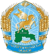 Coat of Arms of North Kazakhstan province